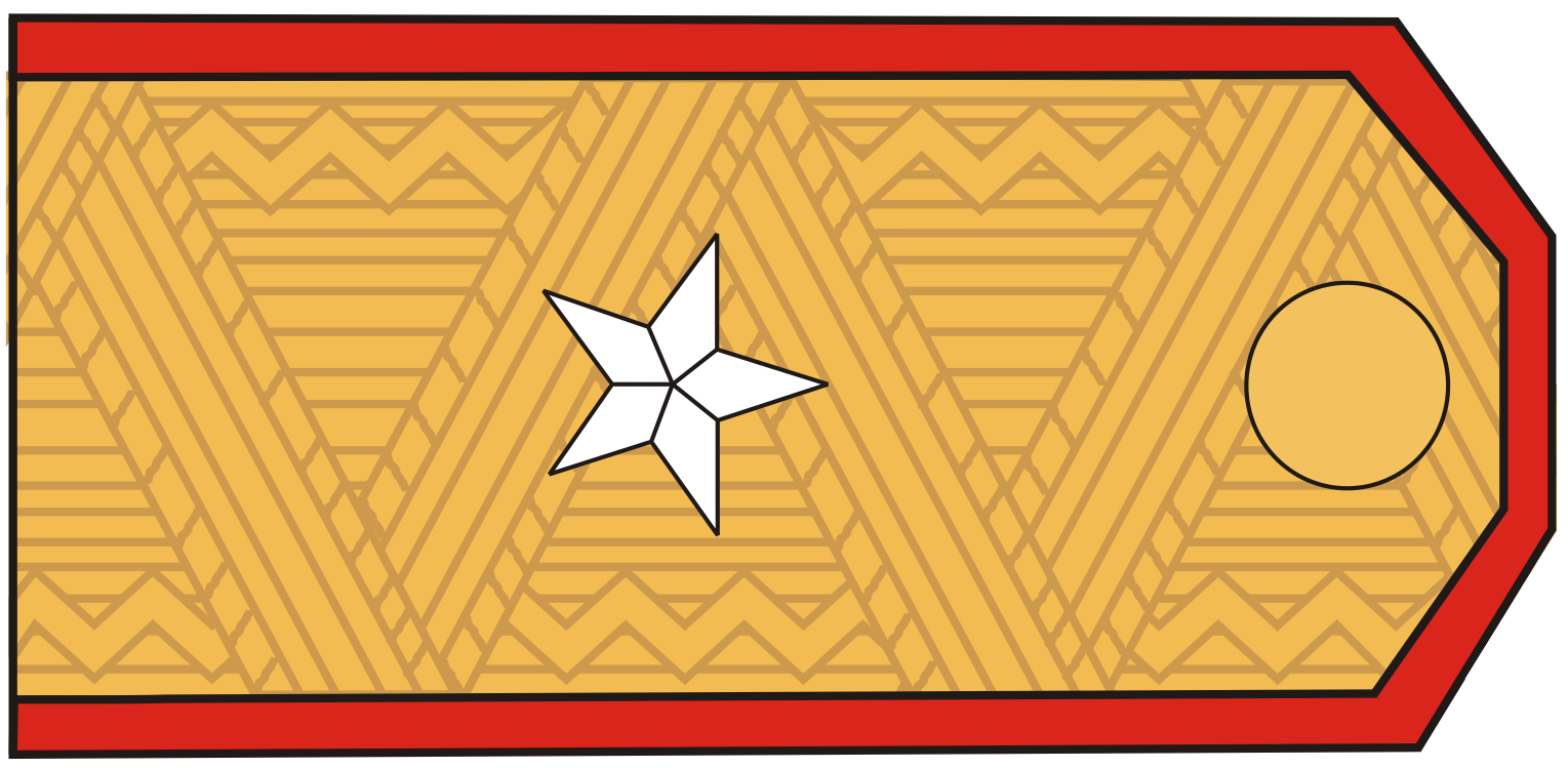 Russian rank insignia (1943-1945), here "Major general" (OF6) – shoulder strap Army (infantry, motorized infantry) field uniform.